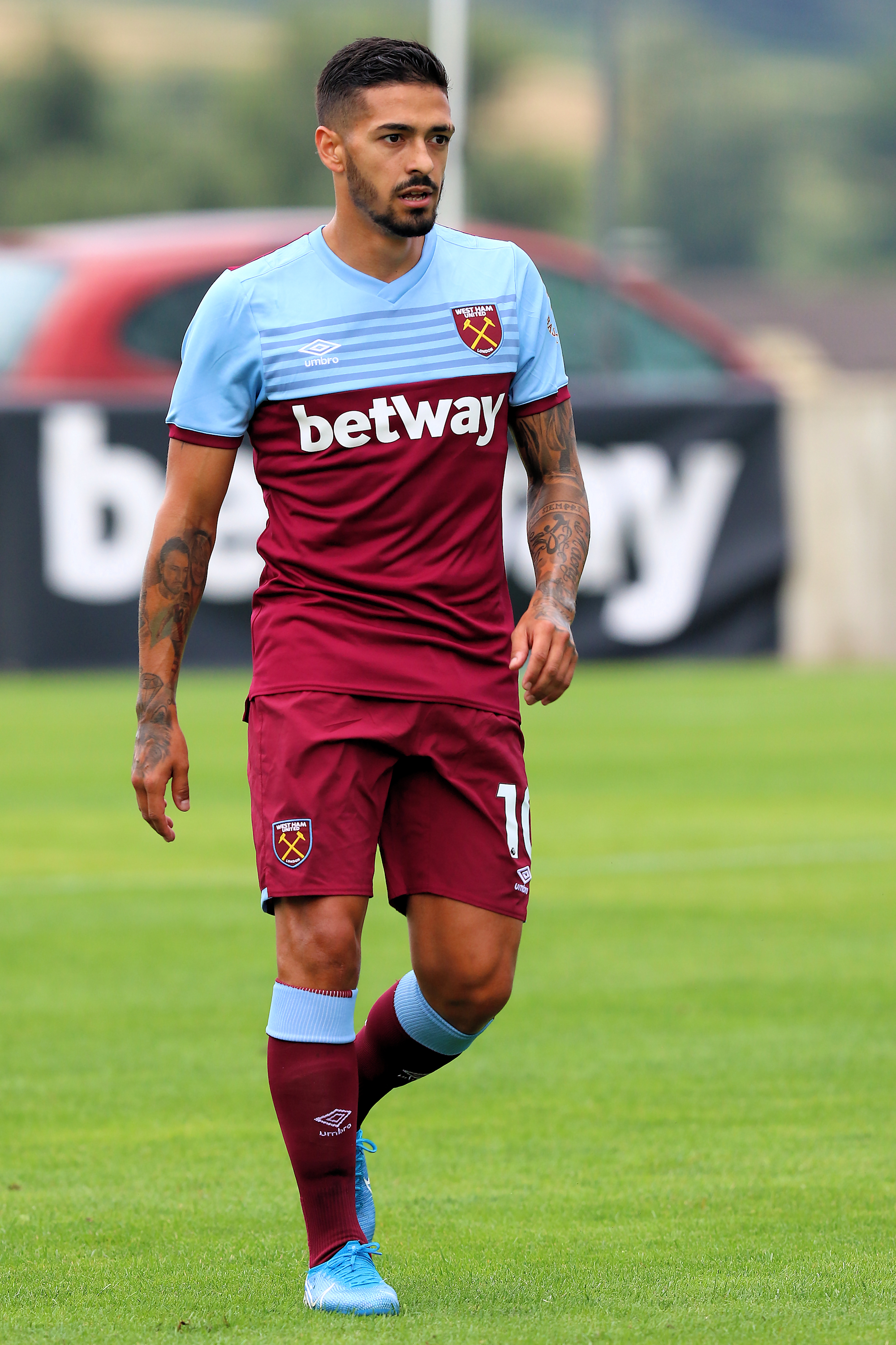 Friendly match Hertha BSC (blue-white shirts) vs. West Ham United (red-blue shirts) at 31-07-2019 3-5 (3-2) in the Sonnenseestadium in Ritzing. – The photo shows Manuel Lanzini (West Ham United).